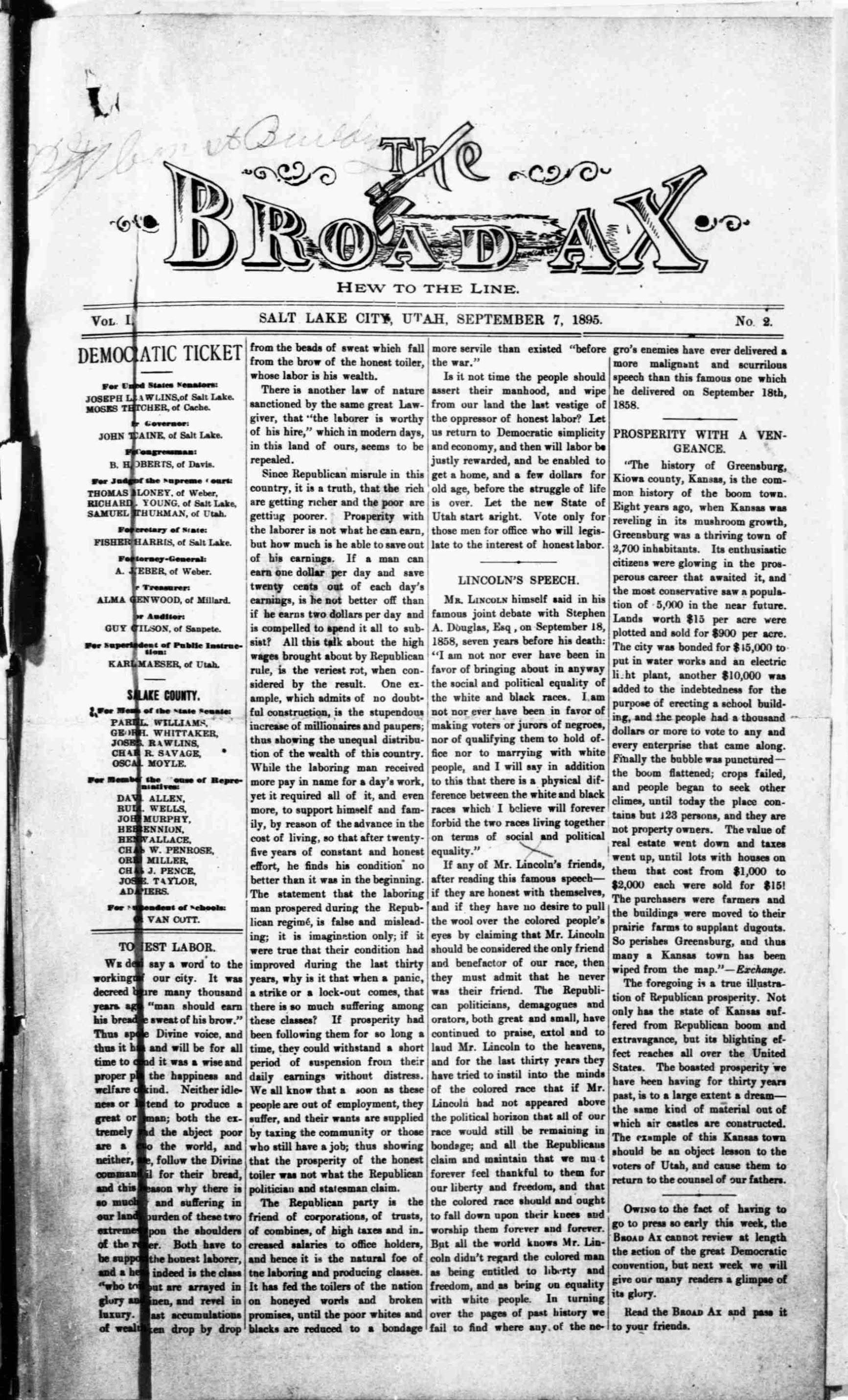 Front page of The Broad Ax of September 7, 1895. The Broad Ax was an African-American newspaper, at this time published in Salt Lake City, Utah.